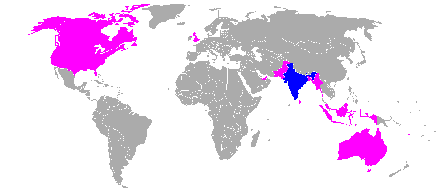 Countries where Oriya is spoken